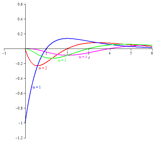 The image displays different members of the family of Poisson wavelets given by the integers 1, 2, 3, 4.